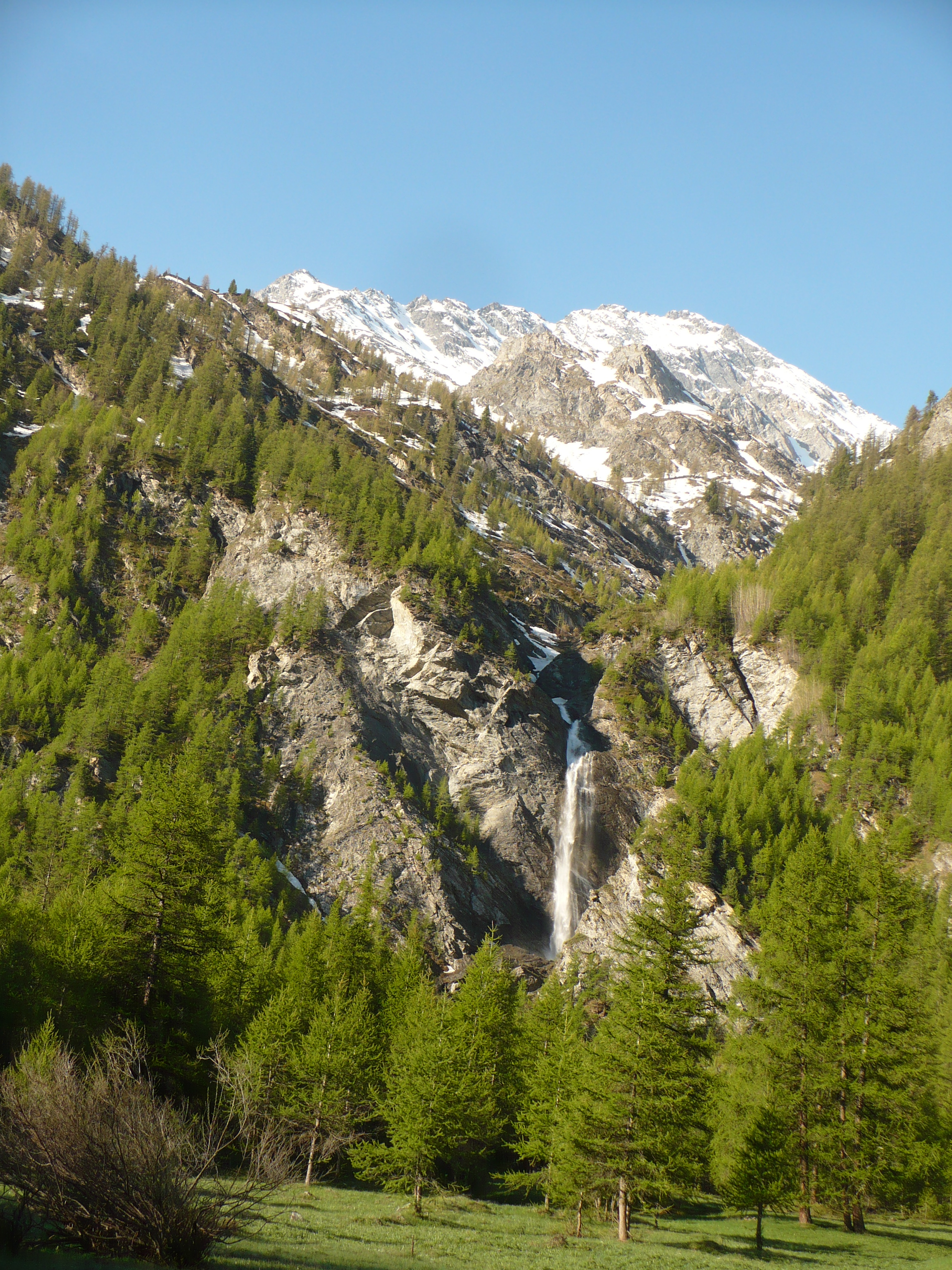 Cascade in Valle Argentera - province of Turin - Piedmont - italy